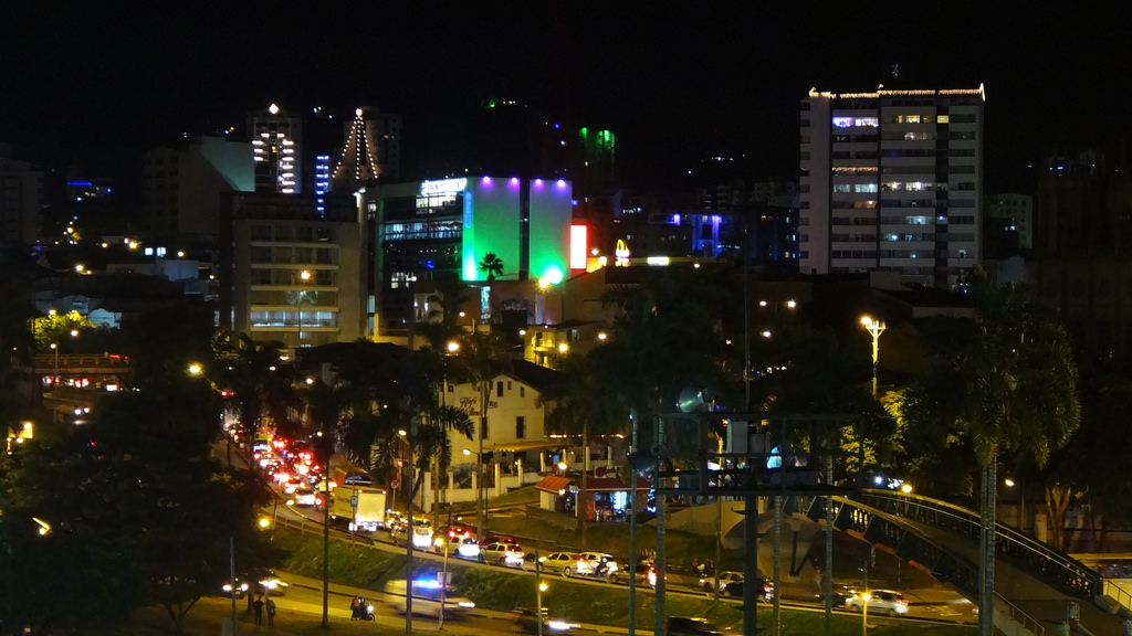 Cuidad Victoria at night